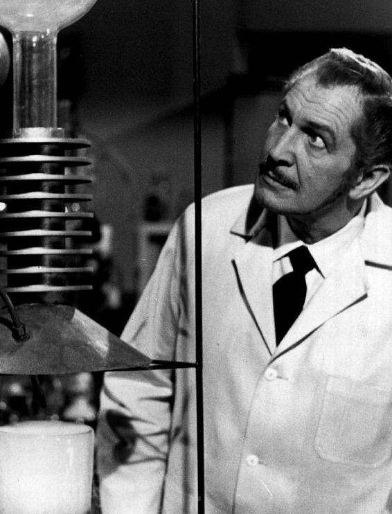 Photo of Vincent Price as KAOS pharmacist Jarvis Pym from the television program Get Smart.